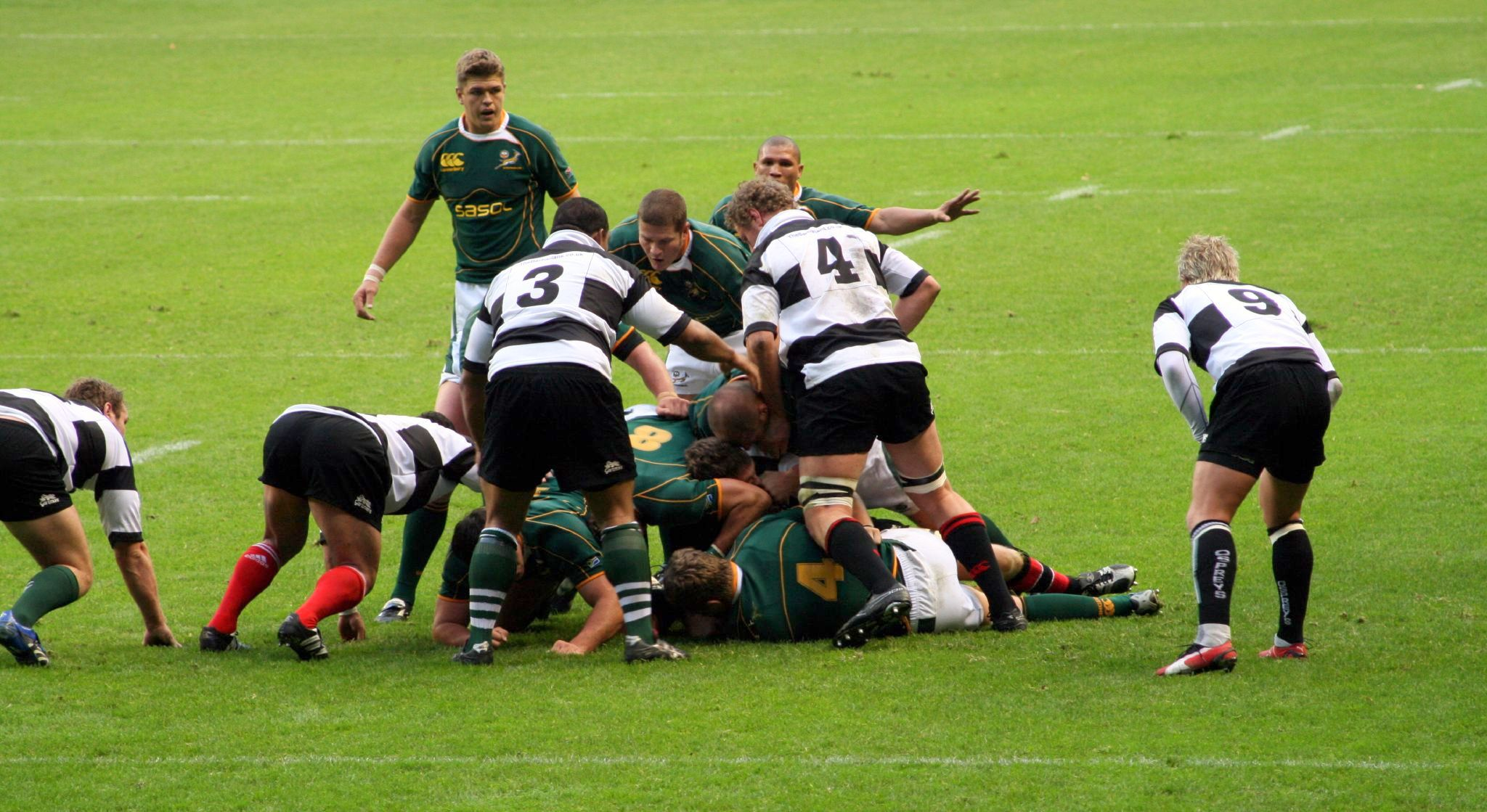 Watching the Boks lose to the Barbarians.